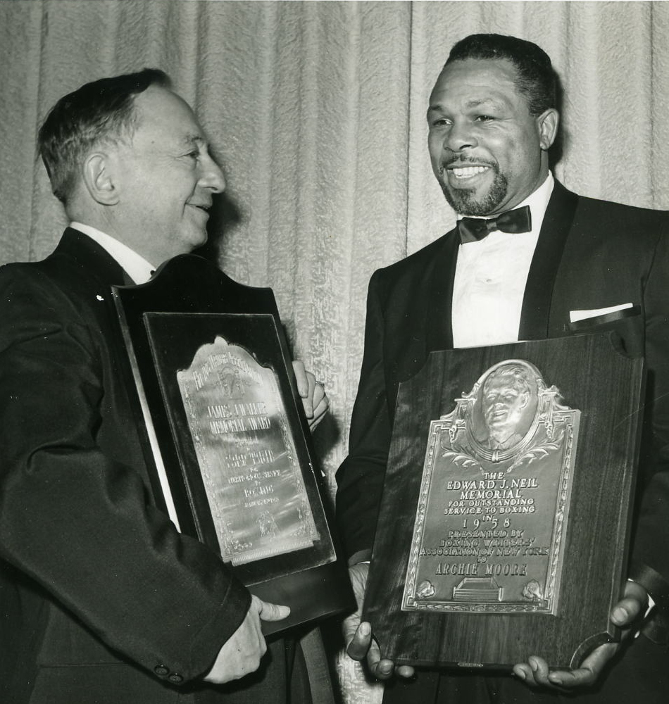 Archie Moore Boxer of the Year & Sam Taub 1959 Press Wire Photo World Champion